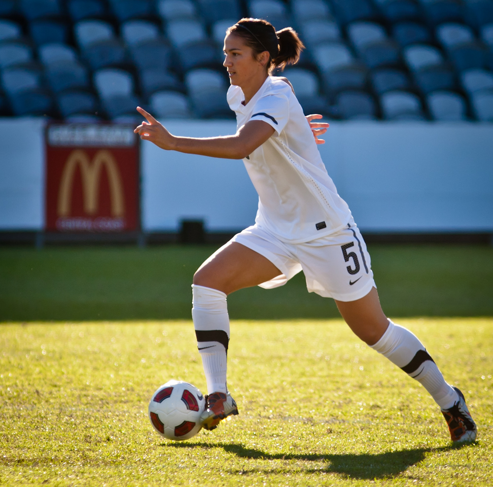 Abby Erceg playing for the New Zealand women's national football team against Australia.